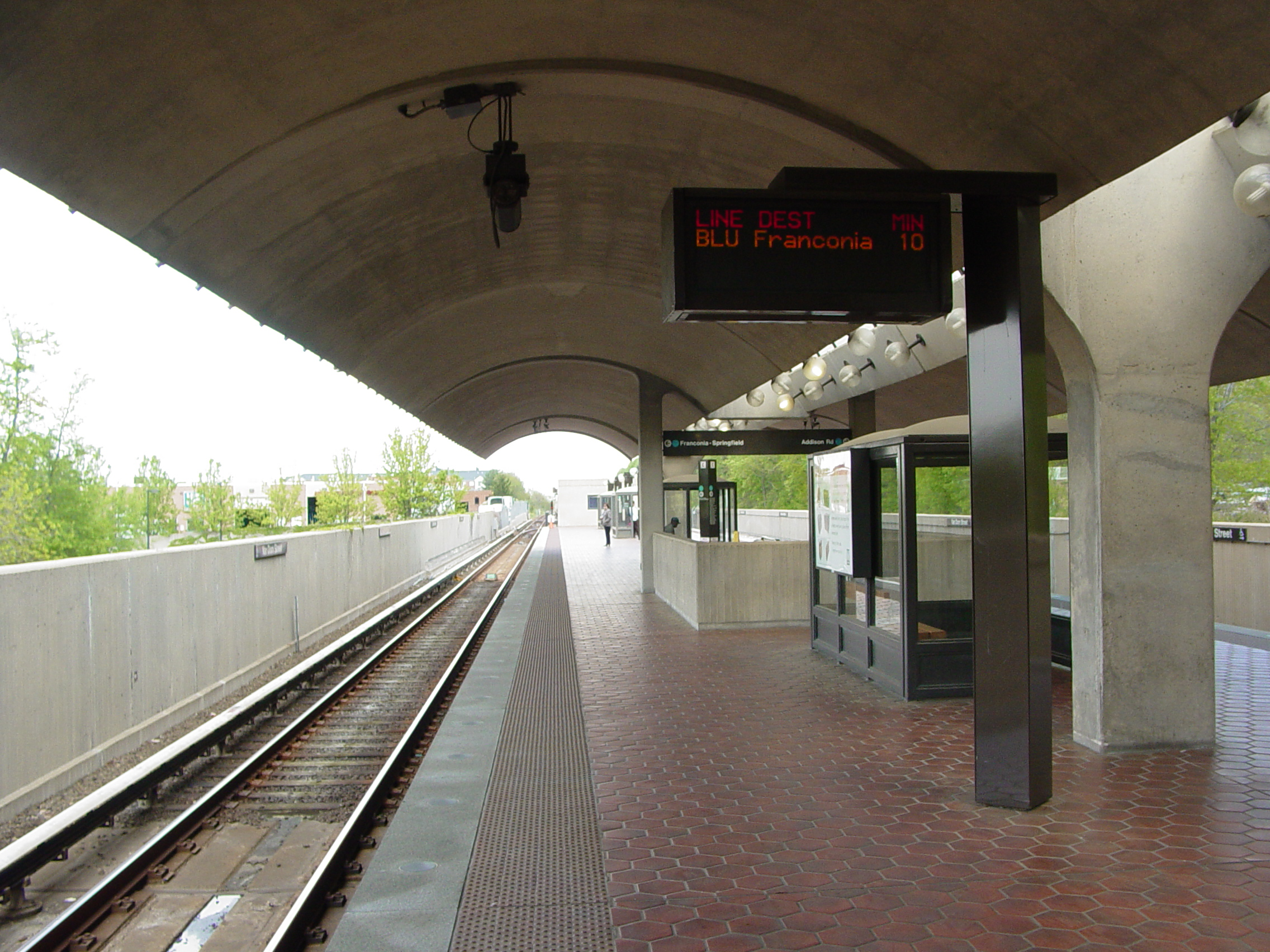 Van Dorn Street, a station on the Blue Line of the Washington Metro.